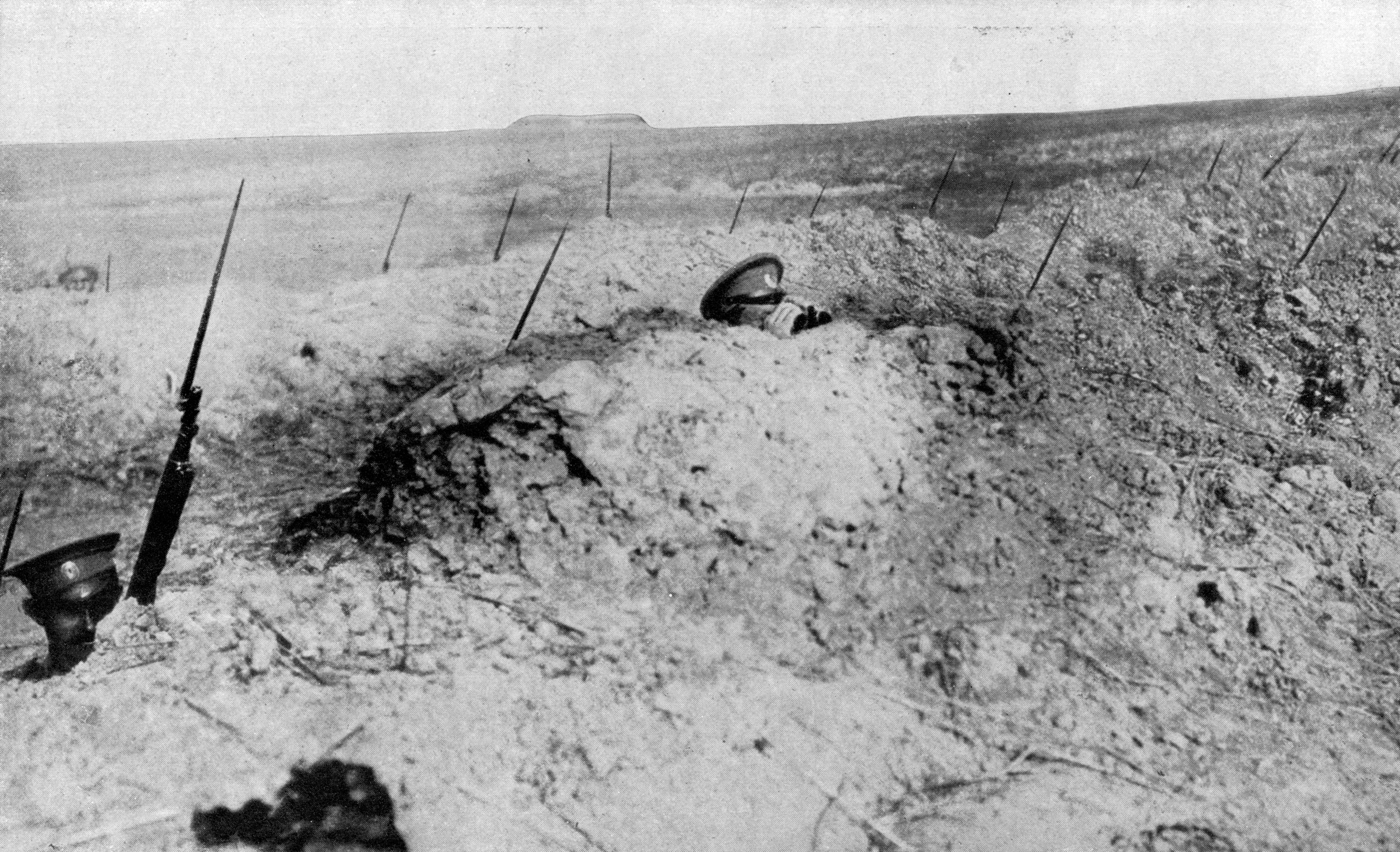 TYPICAL REAR-GUARD TRENCHES IN THE GREAT RUSSIAN RETREAT: A SHELL BURST OVER THIS POSITION JUST AS THE PICTURE WAS TAKEN.